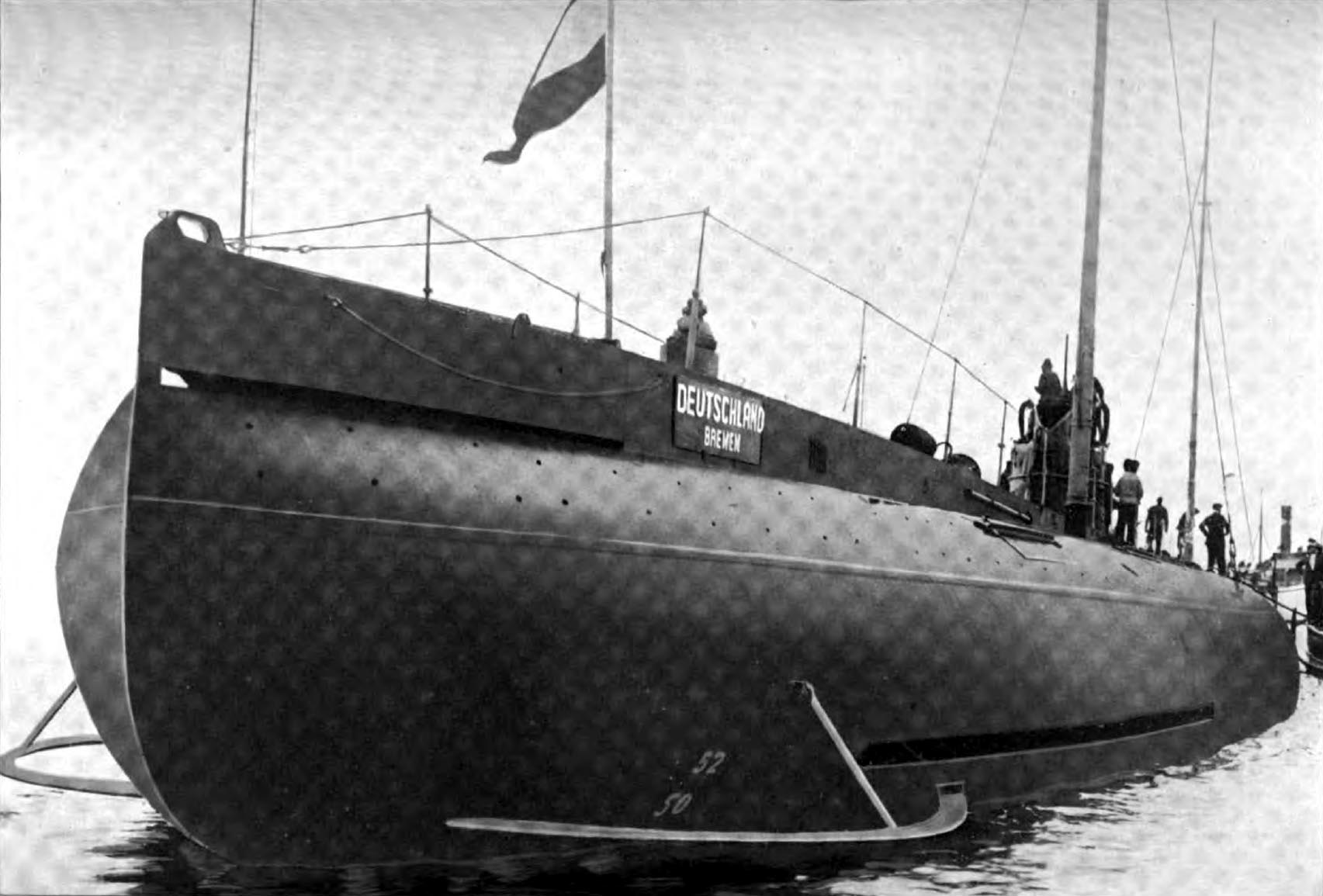 Photograph of the German freight submarine Deutschland. This photo must have been taken before 1917 because she was commissioned in the Imperial German Navy on 19 February 1917 as U 155.